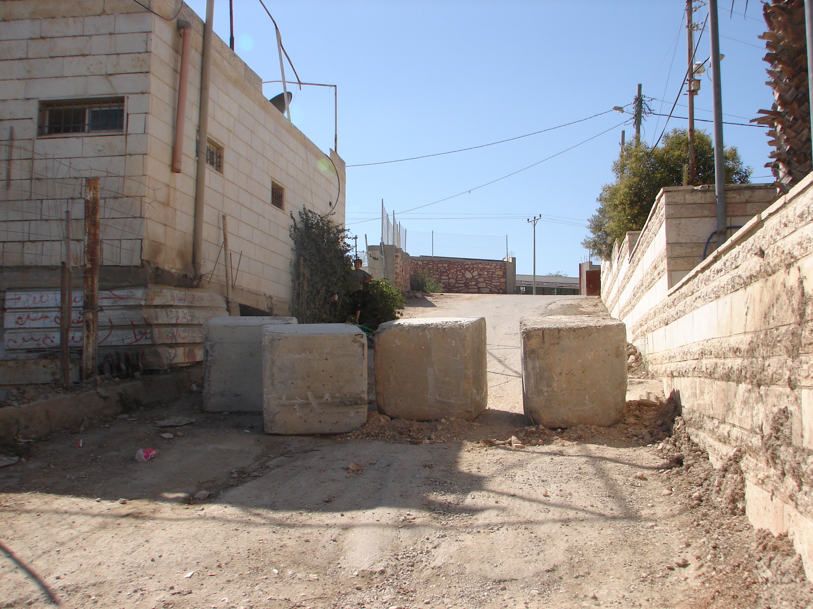 Metre square cement roadblocks used to restrict access.